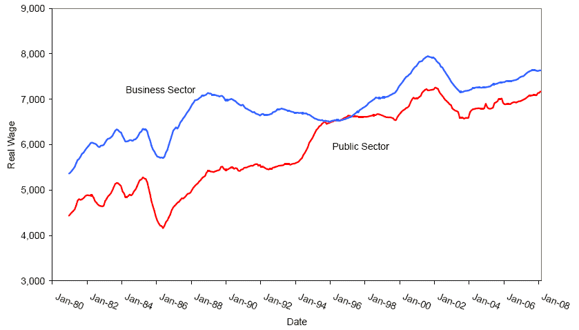 The Real Wage in the Public and the Business Sector